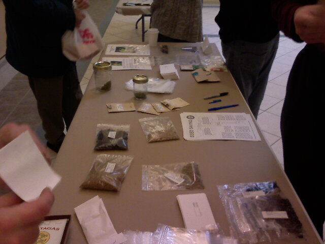 Seed swap at Lincoln Square Mall, Urbana